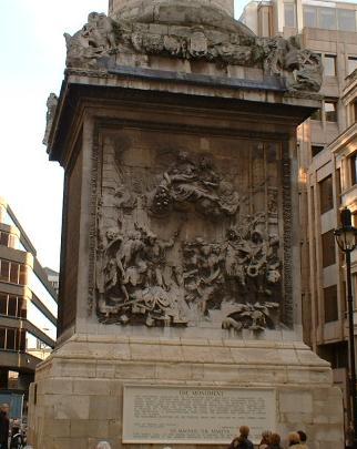 base of the monument to the great fire of london . Taken on November 28, 2003 by A. Brady.